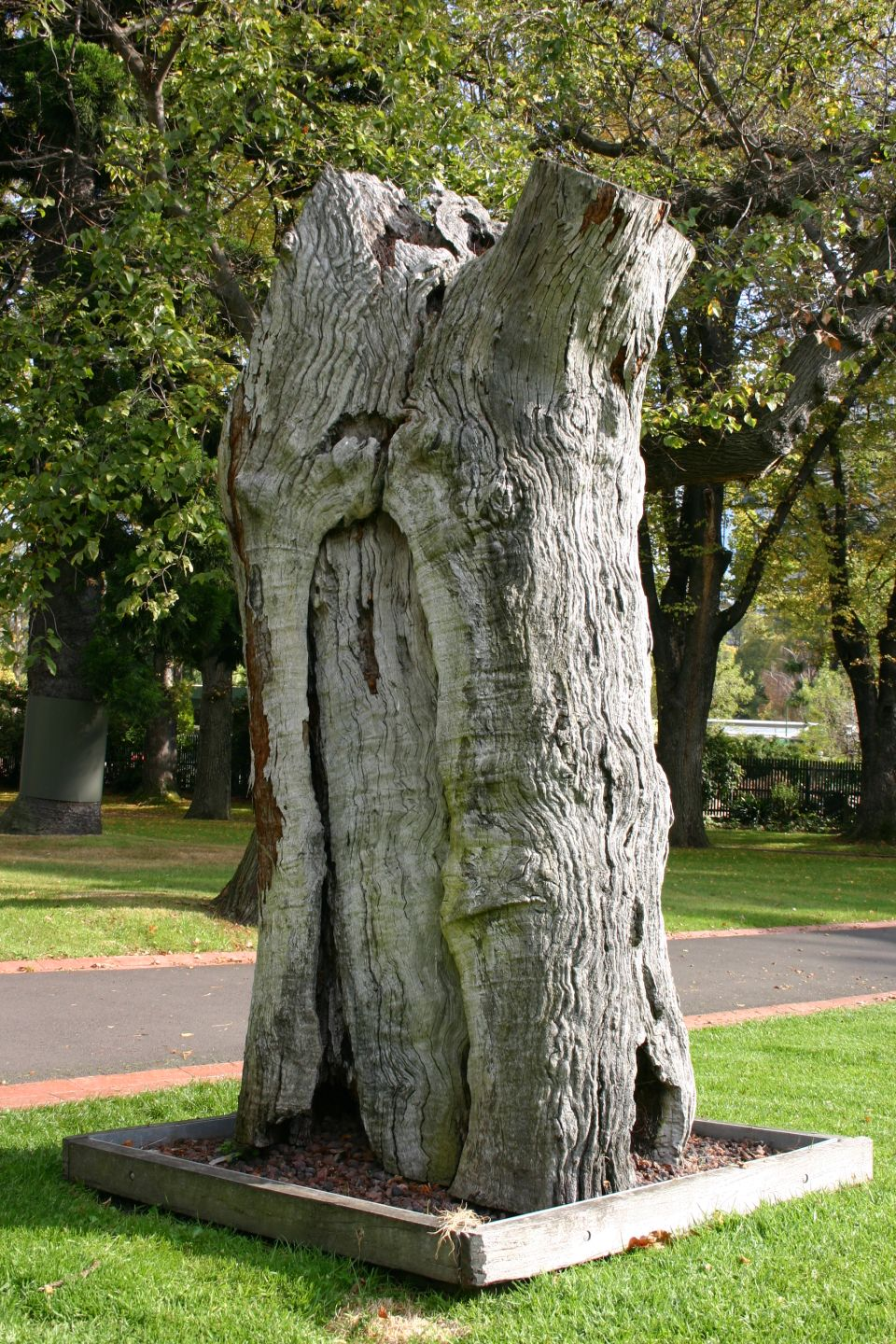 Scarred tree in the Fitzroy Gardens, Melbourne The plaque to this tree says: Scarred Tree The scar on this tree was created when Aboriginal people removed bark to make canoes, shields, food and water containers, string, baby carriers and other items. Please respect this site. It is important to the Wurundjeri people as traditional custodians of the land and is part of the heritage of all Australians. All Aboriginal cultural sites are protected by law. Photo by Takver and released under GNU GFDL